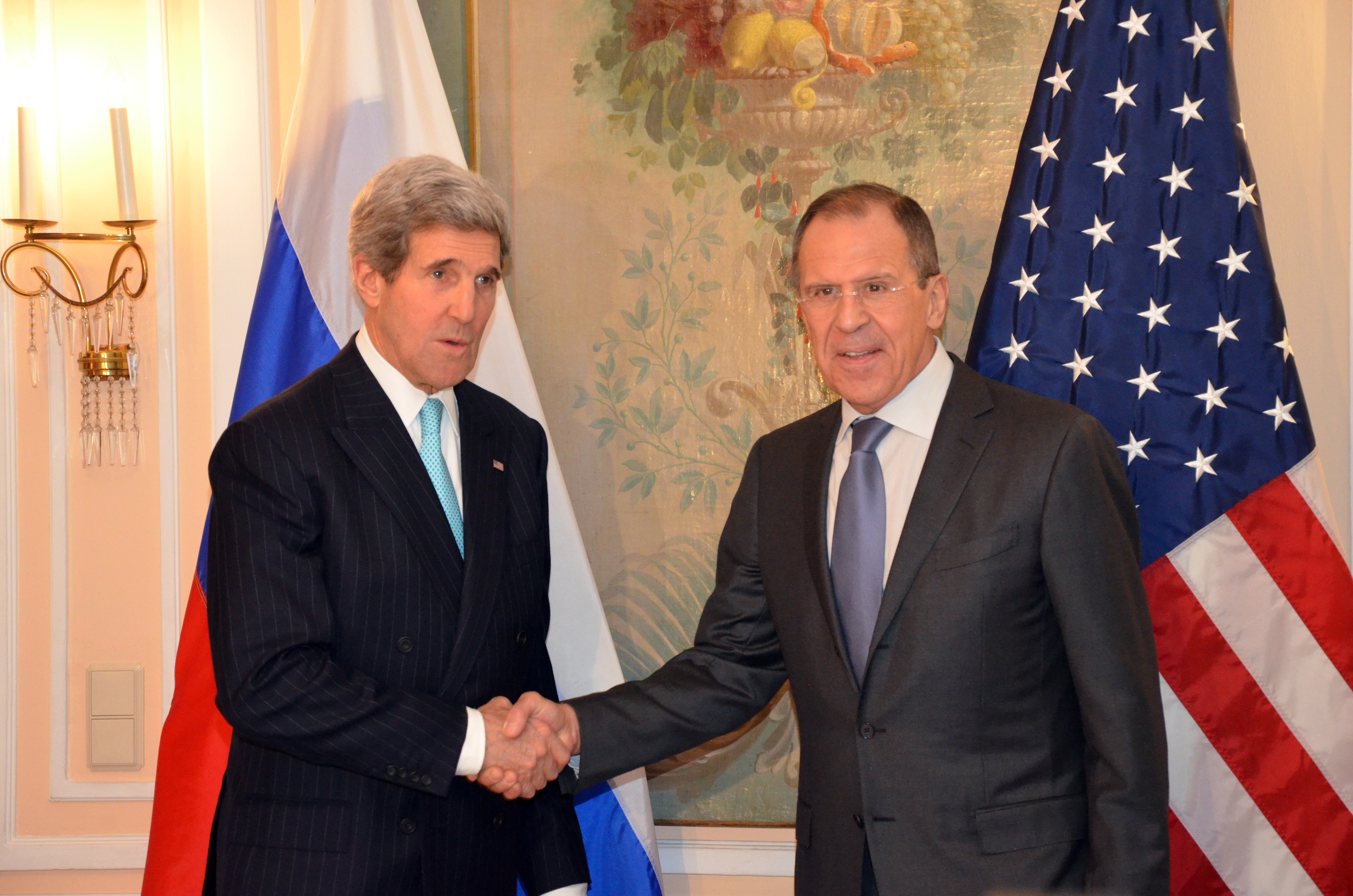 Handshakes between Secretary Kerry and FM Lavrov